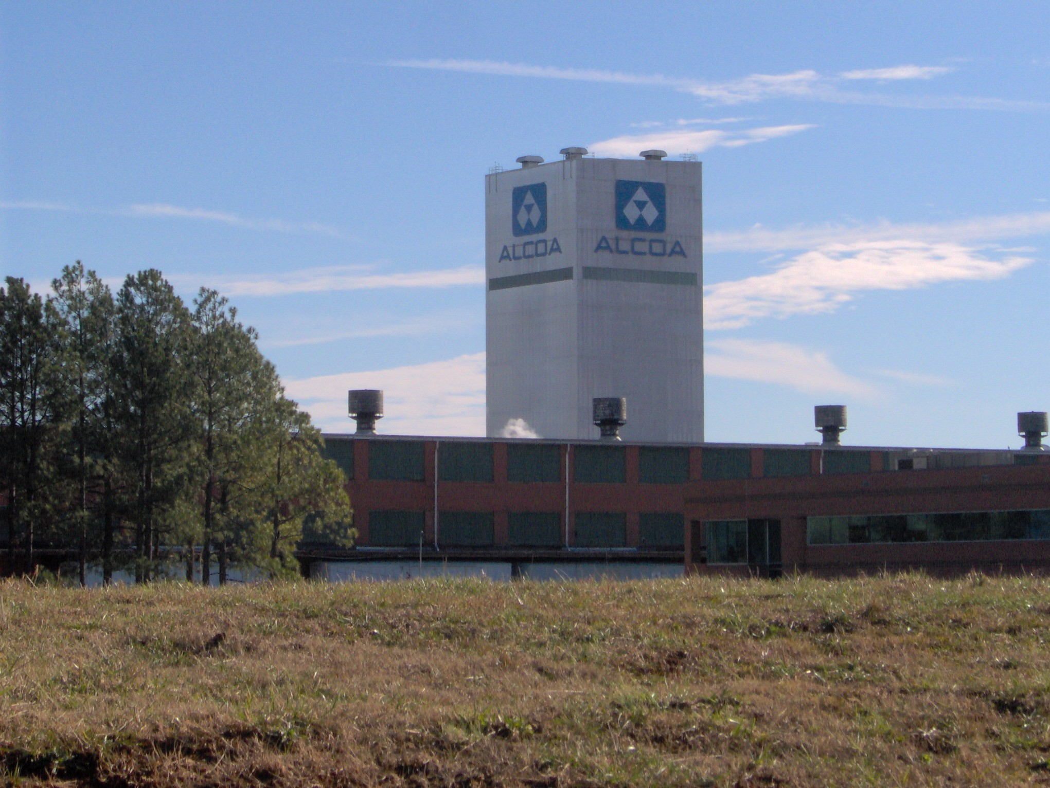 The Continuous Cold Mill tower at ALCOA's North Plant in Alcoa, Tennessee, located in the Southeastern United States. The tower, easily visible from US-129 and McGhee-Tyson Airport, is one of the first sites to greet travelers entering Blount County. The tower was built in 1987.